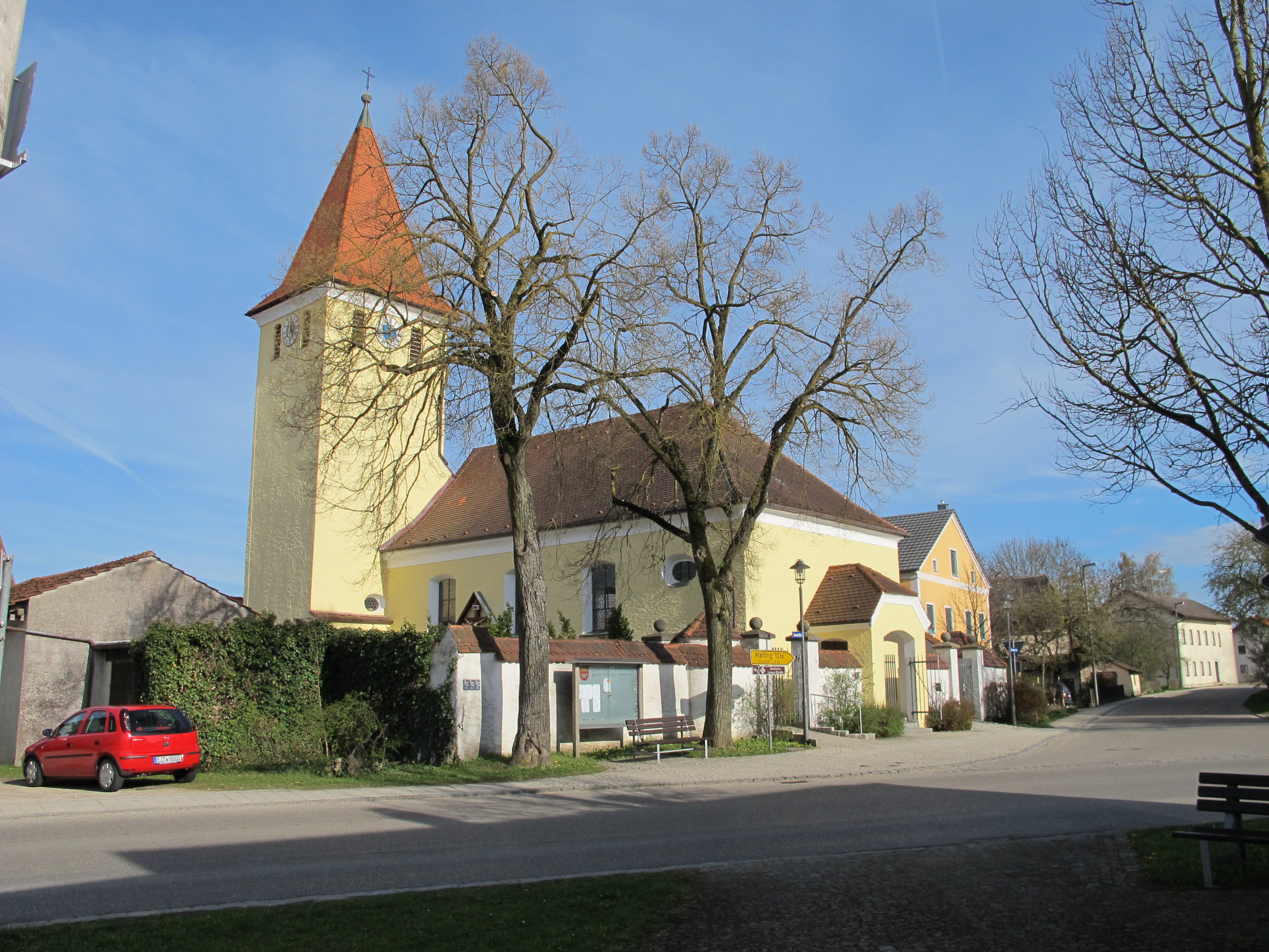 Bavaria, Pollenfeld, Wachenzell, Baroque Church